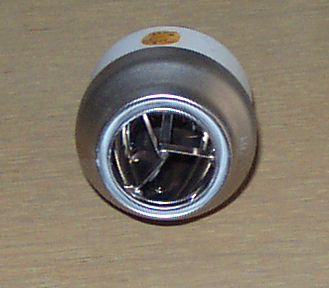 A 420W Perkin-Elmer Cermax short Xenon arc lamp